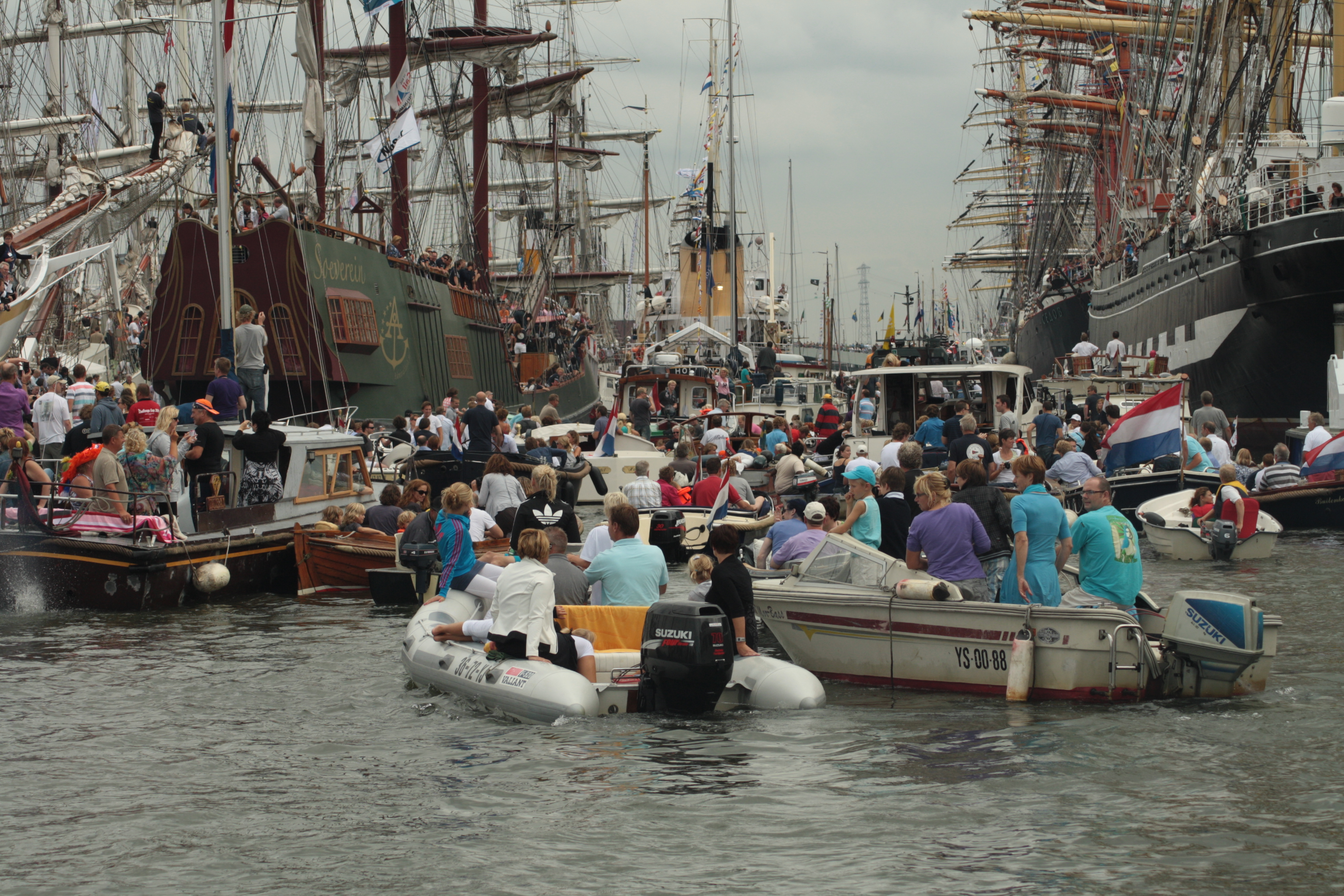 A lot of people on the water at the entrance of the Sail route of Amsterdam Sail 2010.